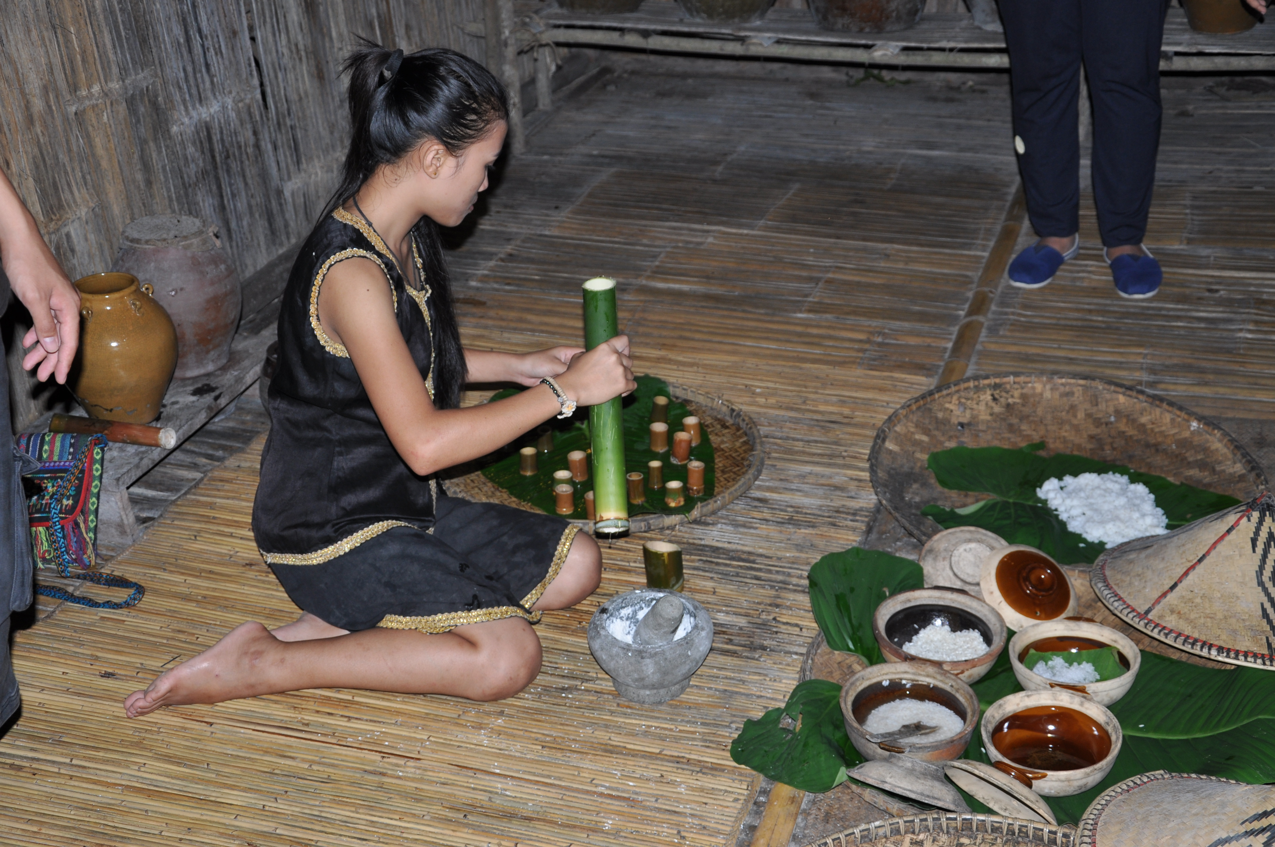 Kota Kinabalu, E. Malaysia, demonstration of traditional rice wine making, 2013